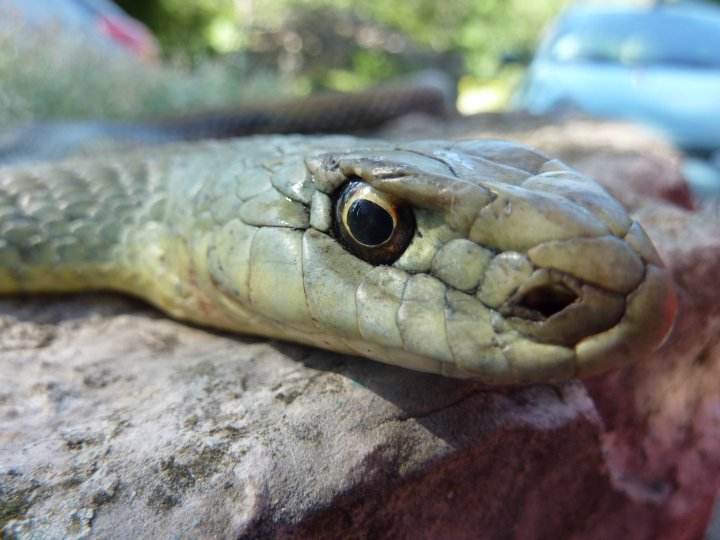 couleuvre de Montpellier sur muraille